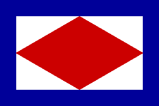 Flag of Lucca 1801-1805.